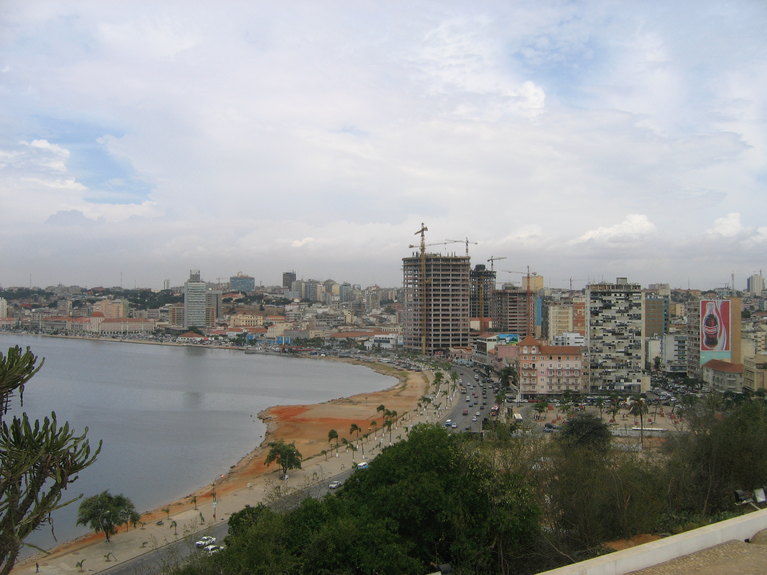 The center of Luanda, Angola, taken from the Fortaleza